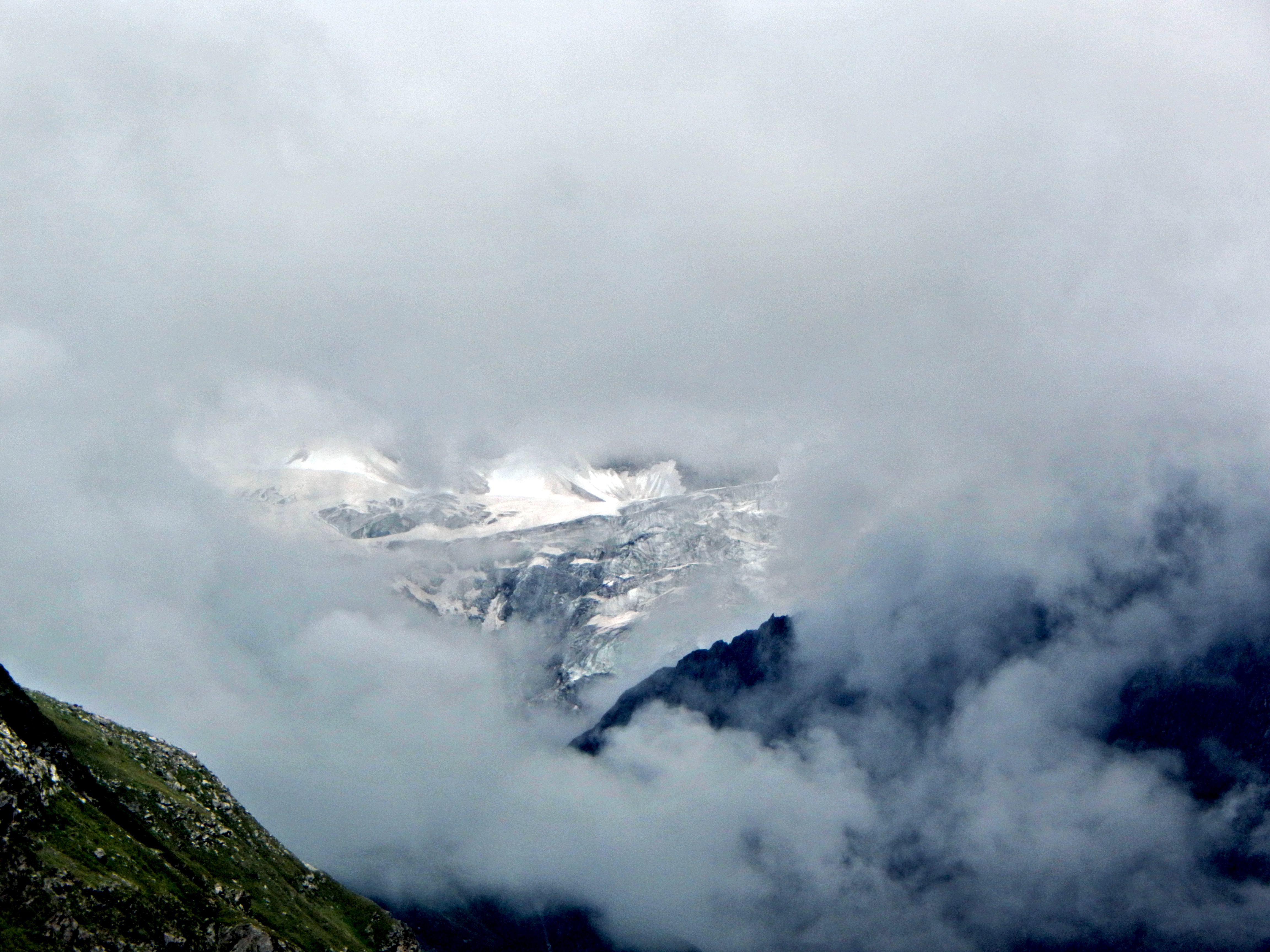 Nanda Devi is the 2nd Highest peak of India and is visible for a few minutes from Valley of Flowers as the thick nimbus cloud cover dissipates.